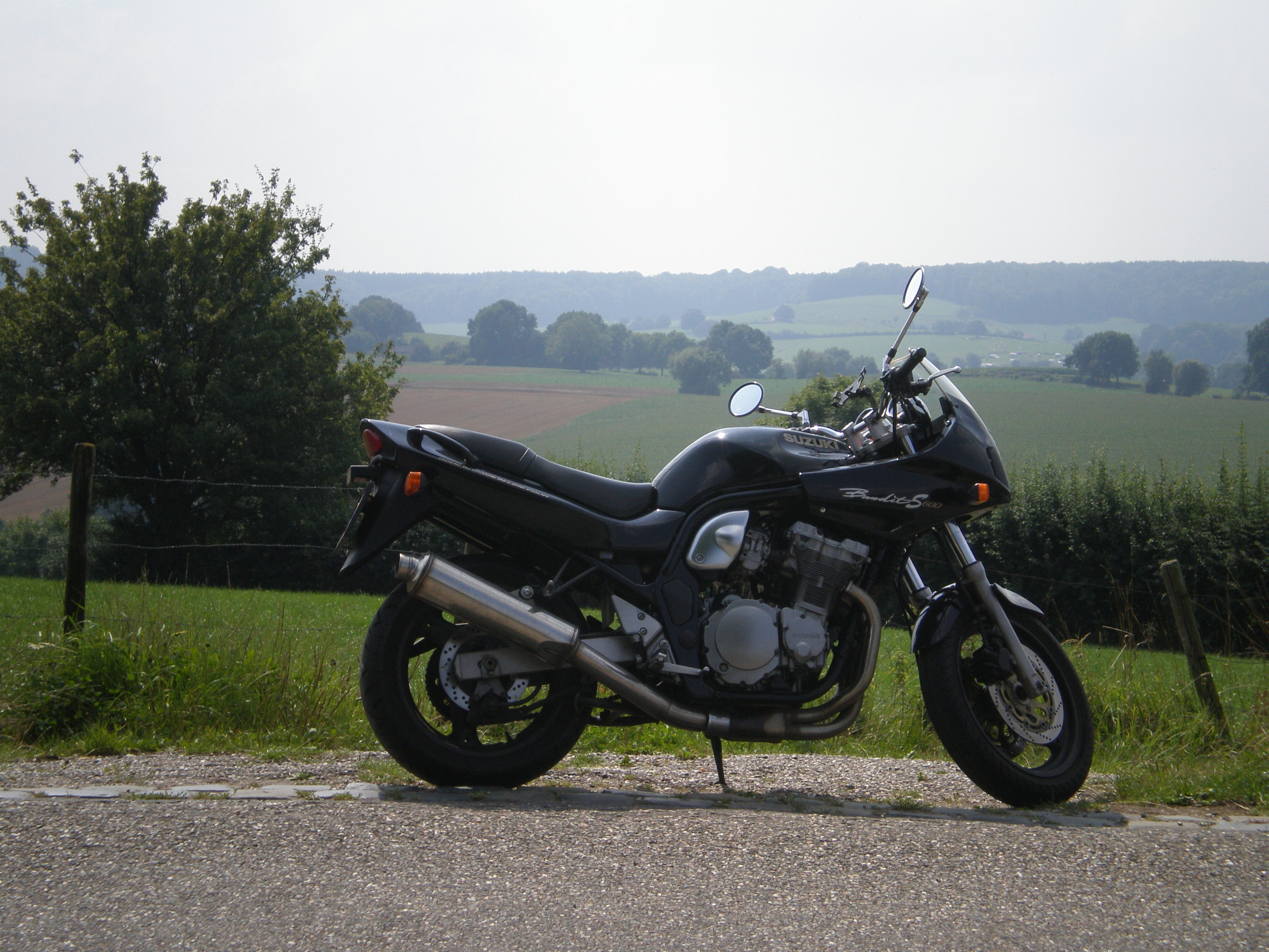 A Suzuki GSF 600. Picture made in Valkenburg aan de Geul